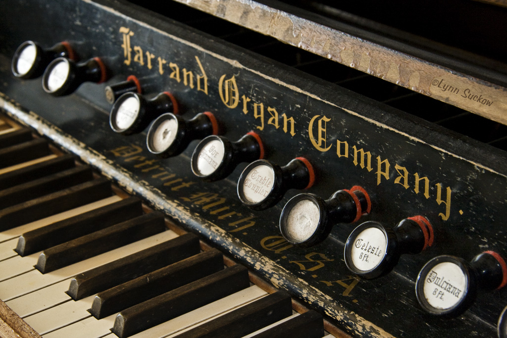 Farrand Organ Company label on one of their organs